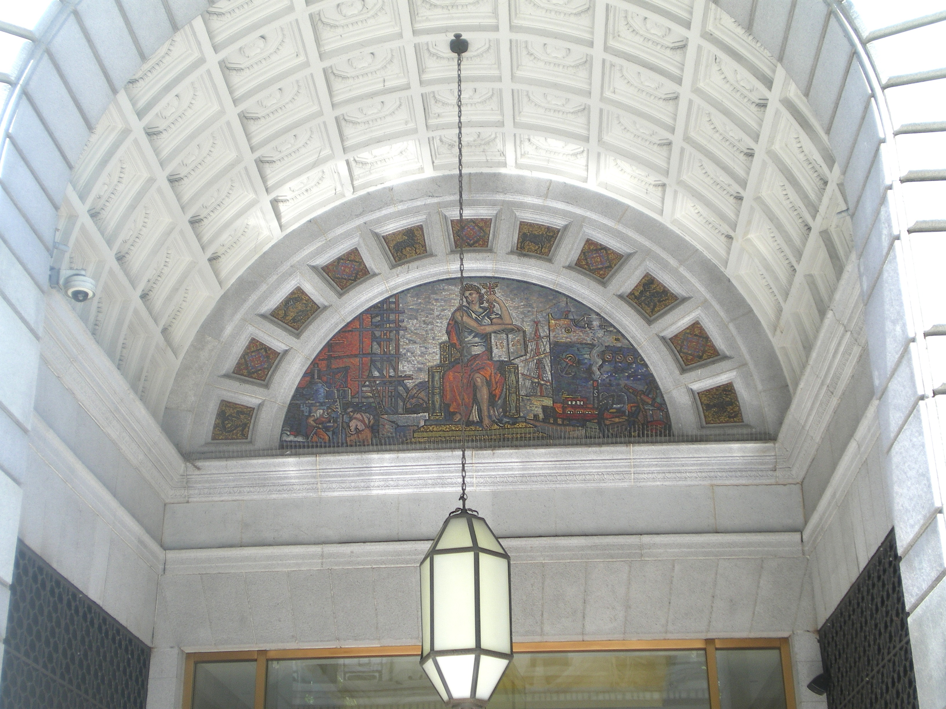 Entrance to Subway Terminal Building (built 1925) — on Hill Street, in Downtown Los Angeles, California. Present day "Metro 417" — renovated in 2007 into a luxury apartments building.